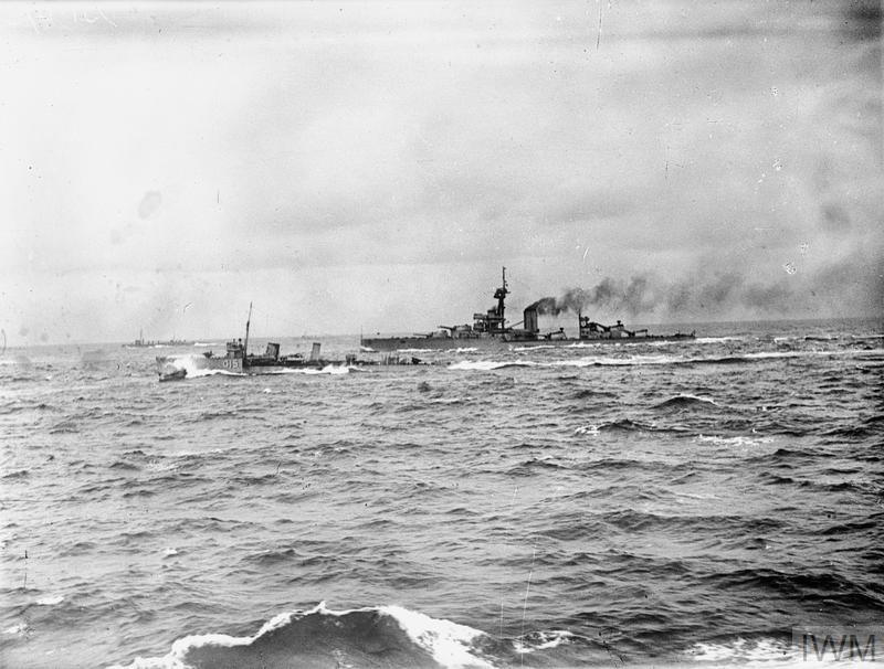 The battleship HMS Orion and the destroyer HMS Musketeer, 1918